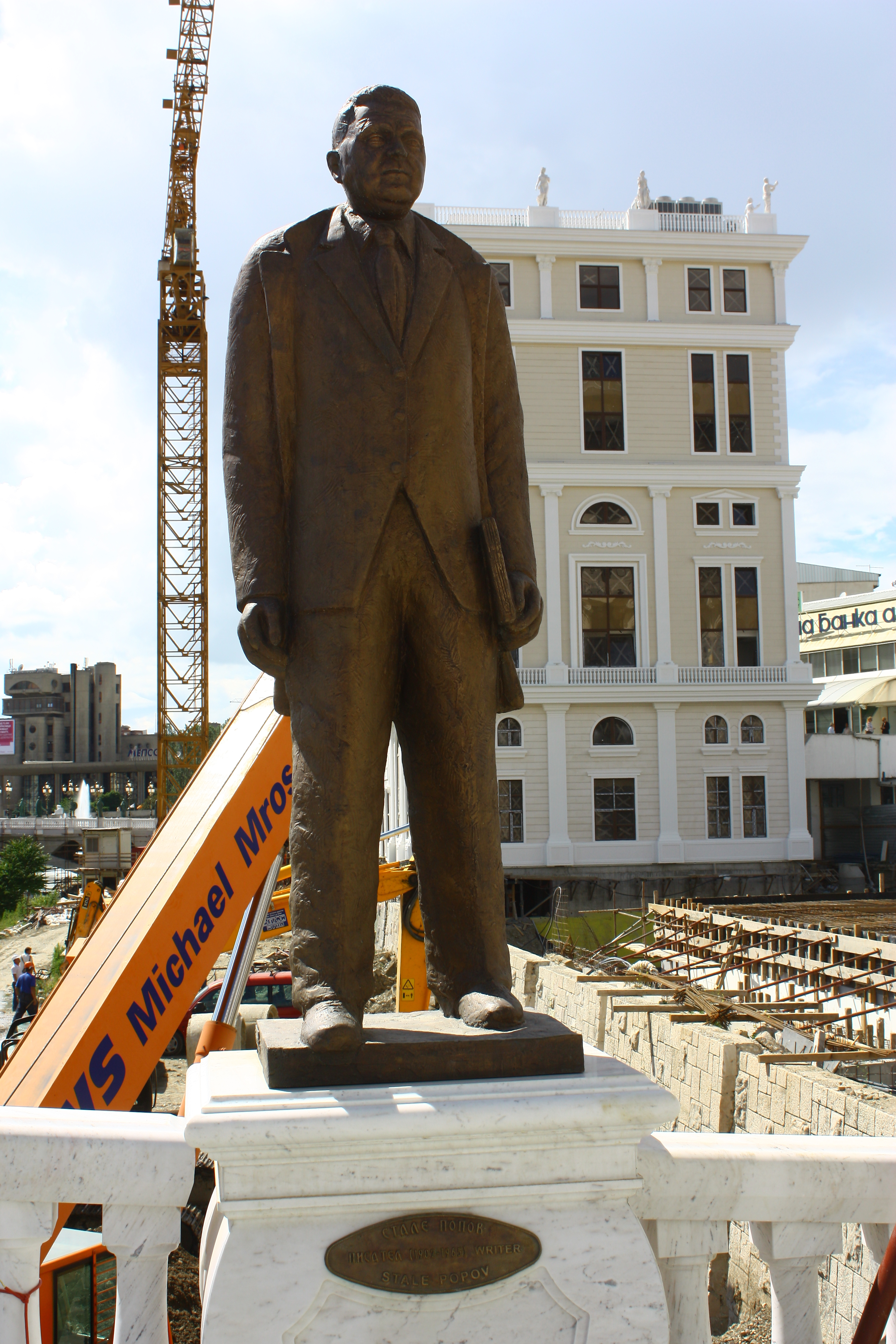 Sculpture od the Bridge of Arts in Skopje, Macedonia This image is uploaded as part of the picture contest Wiki Loves Cultural Heritage in Macedonia 2013. English | македонски | +/−